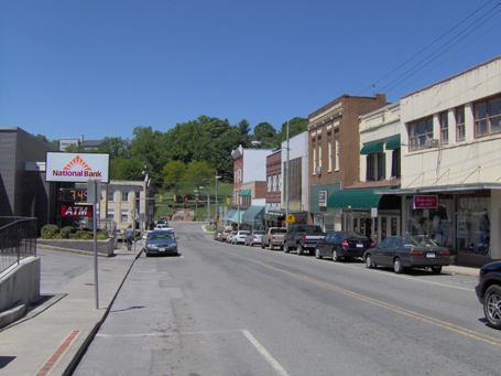 Downtown Bluefield VA (Carson Maynard, 2006).